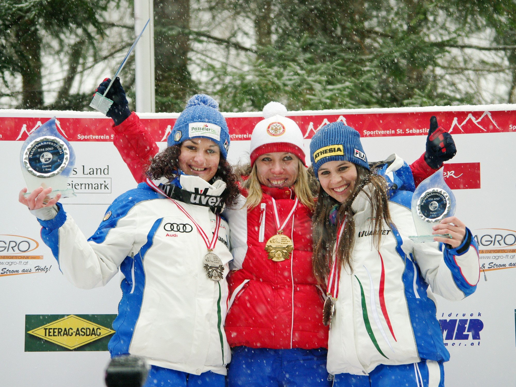 FIL European Luge Natural Track Championships 2010, Prize giving ceremony women's singles: 1st place: Yekaterina Lavrentyeva (RUS), 2nd place: Evelin Lanthaler (ITA), 3rd place: Renate Gietl (ITA).